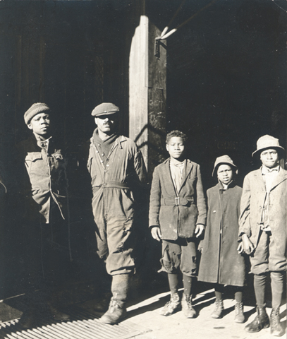 Depicts an African American dock worker in his work clothes posed outside of his Philadelphia home at 2nd and Brown Sts., with his four children. The children are dressed in old clothes, some ragged. Photographer: Wilson, G. Mark, ca. 1923. wilson92 Link to record on ImPAC, the Library Company’s digital collections catalog